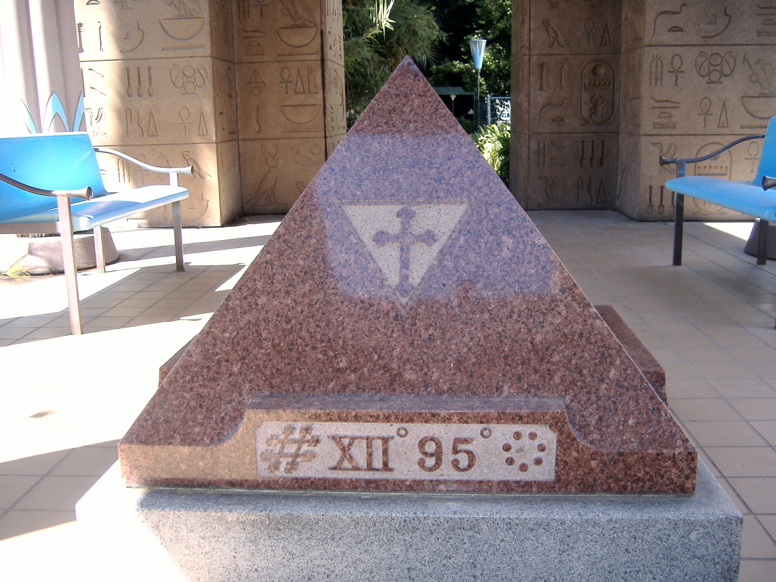 backside